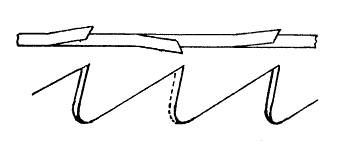 Setting (proper translation?) of teeth on saw blade